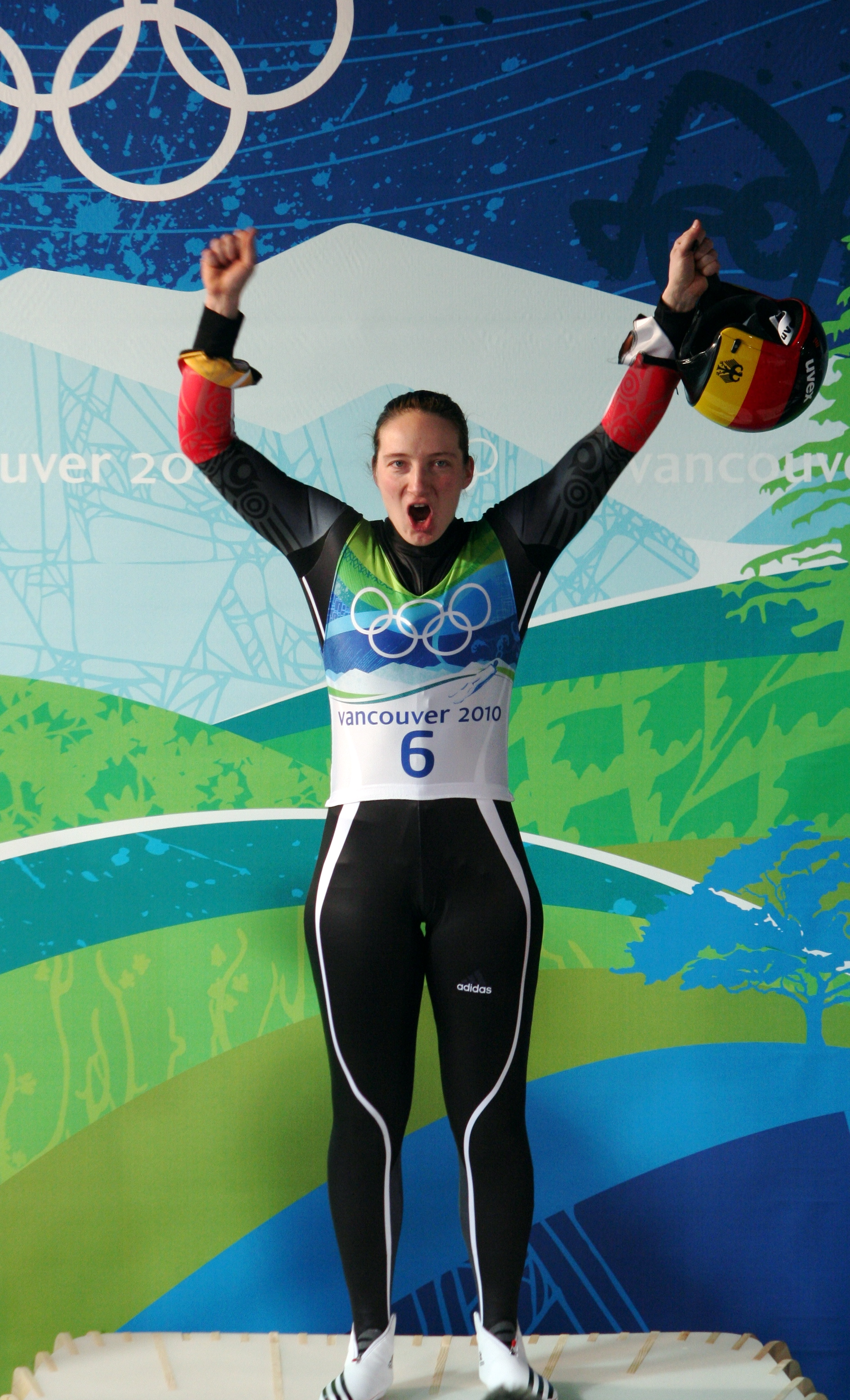 German luger Tatjana Hüfner after a run at the 2010 Vancouver Winter Olympics